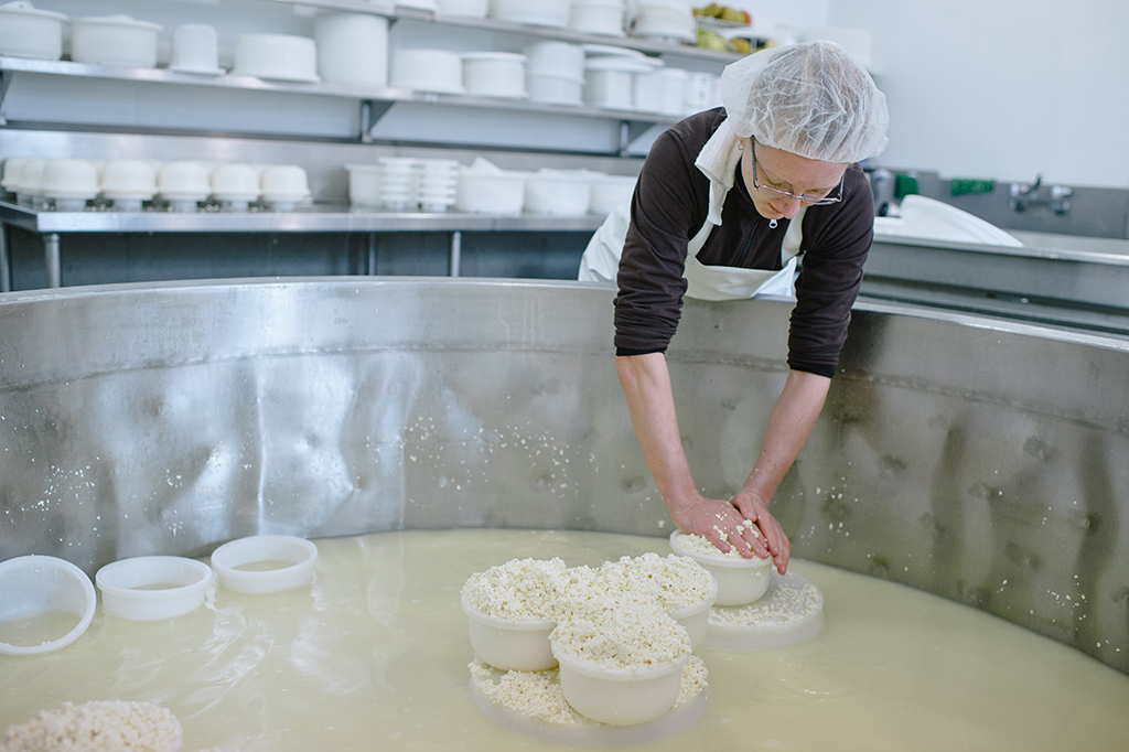 UFV Agriculture students at work in various practicums around the Fraser Valley.